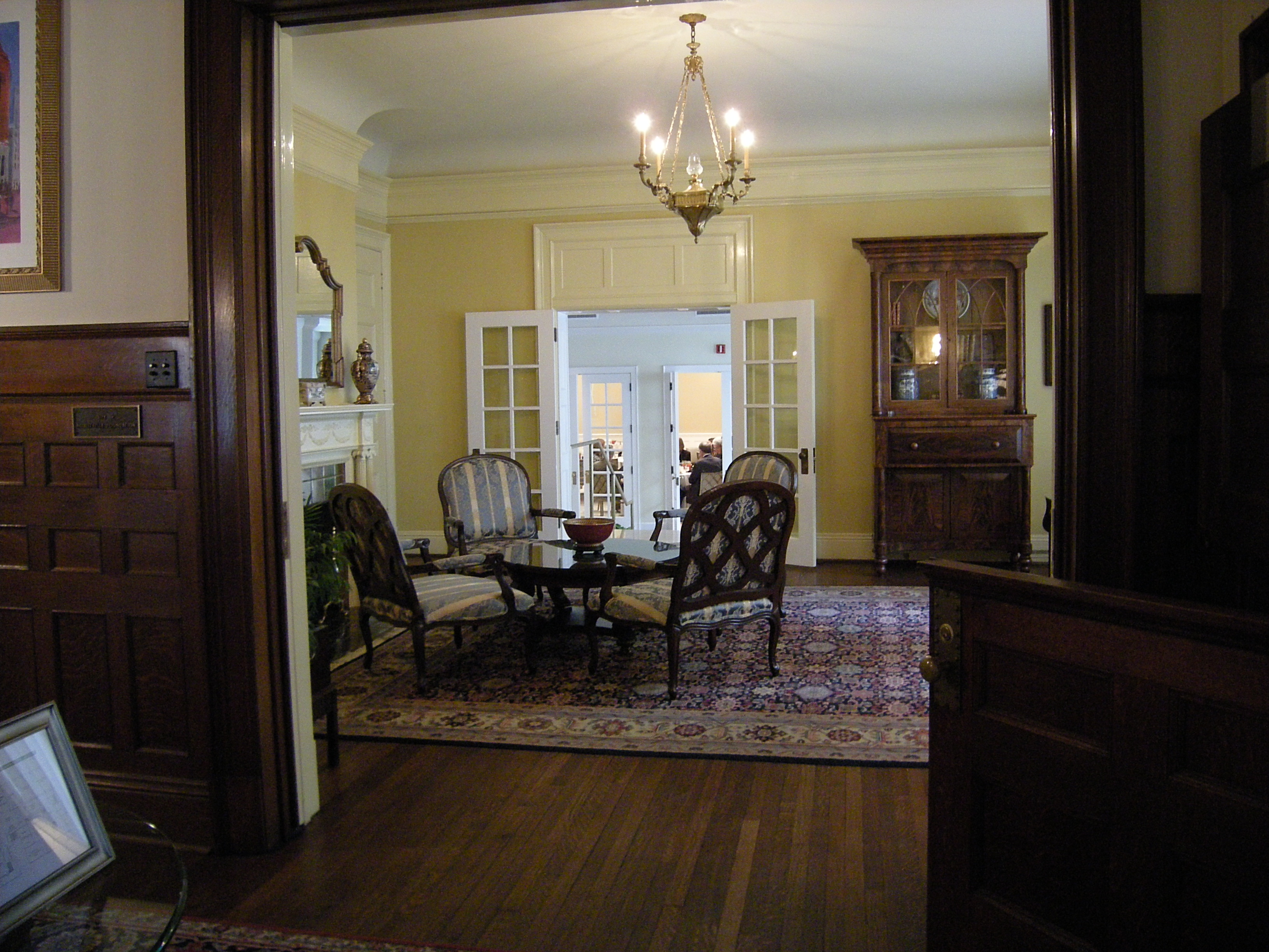 Interior, Alfred Horatio Belo House (A. H. Belo House), Arts District, Dallas, Texas. Originally home of newspaper publisher A. H. Belo; added onto as a funeral home; now headquarters of the Dallas Bar Association and Dallas Bar Foundation.